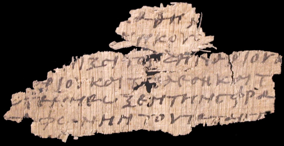 Papyrus 24 - Papyrus Oxyrhynchus 1230 - Andover Newton Theological School OP 1230 - Book of Revelation 6:5-8